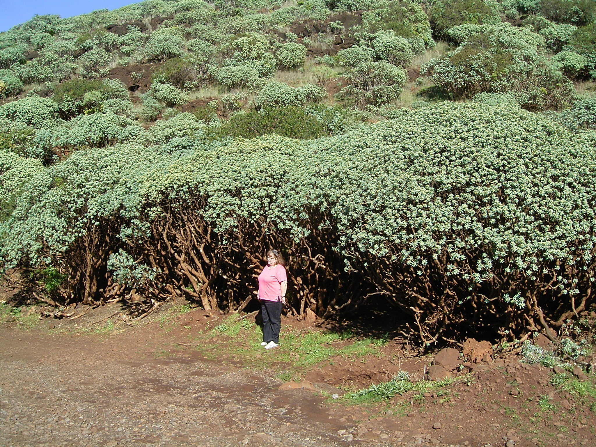 Euphorbia balsamifera growing at Vía Puerto de Garafía in Garafía, La Palma, Canary Island, Spain